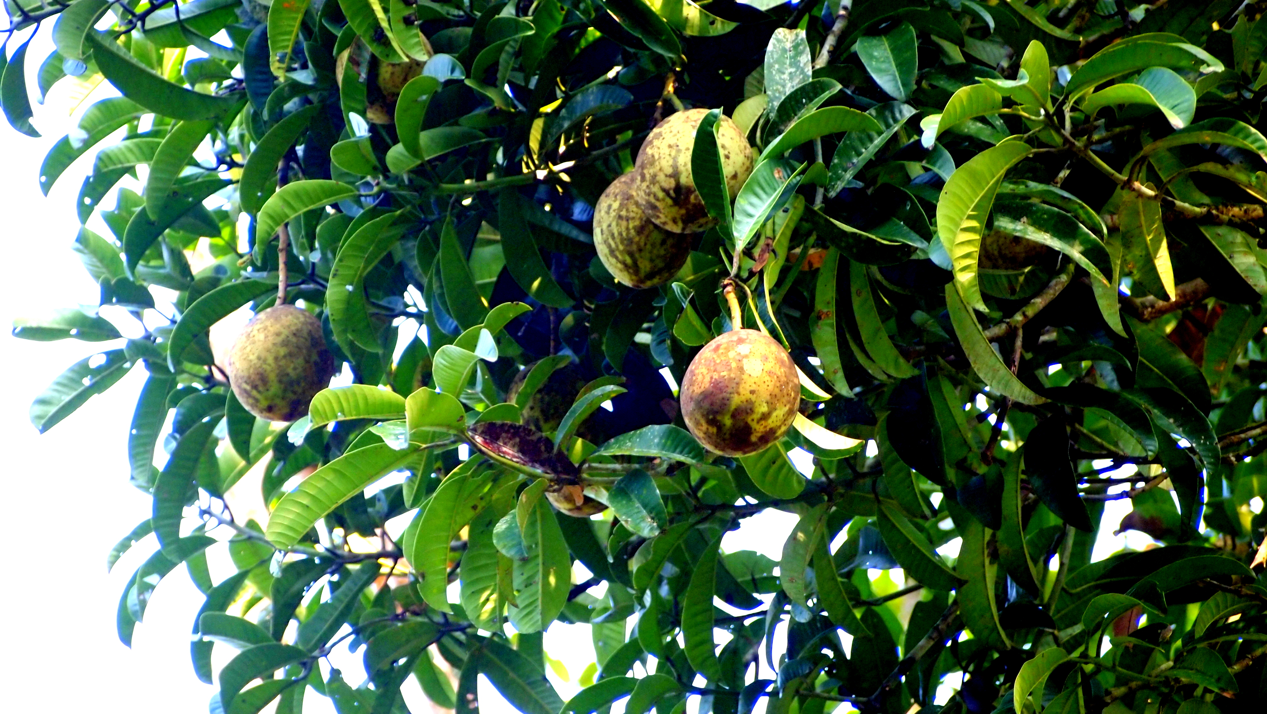 Mangifera foetida (Bacang in Malaysia)